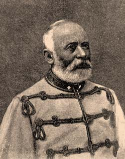 László Pongrácz